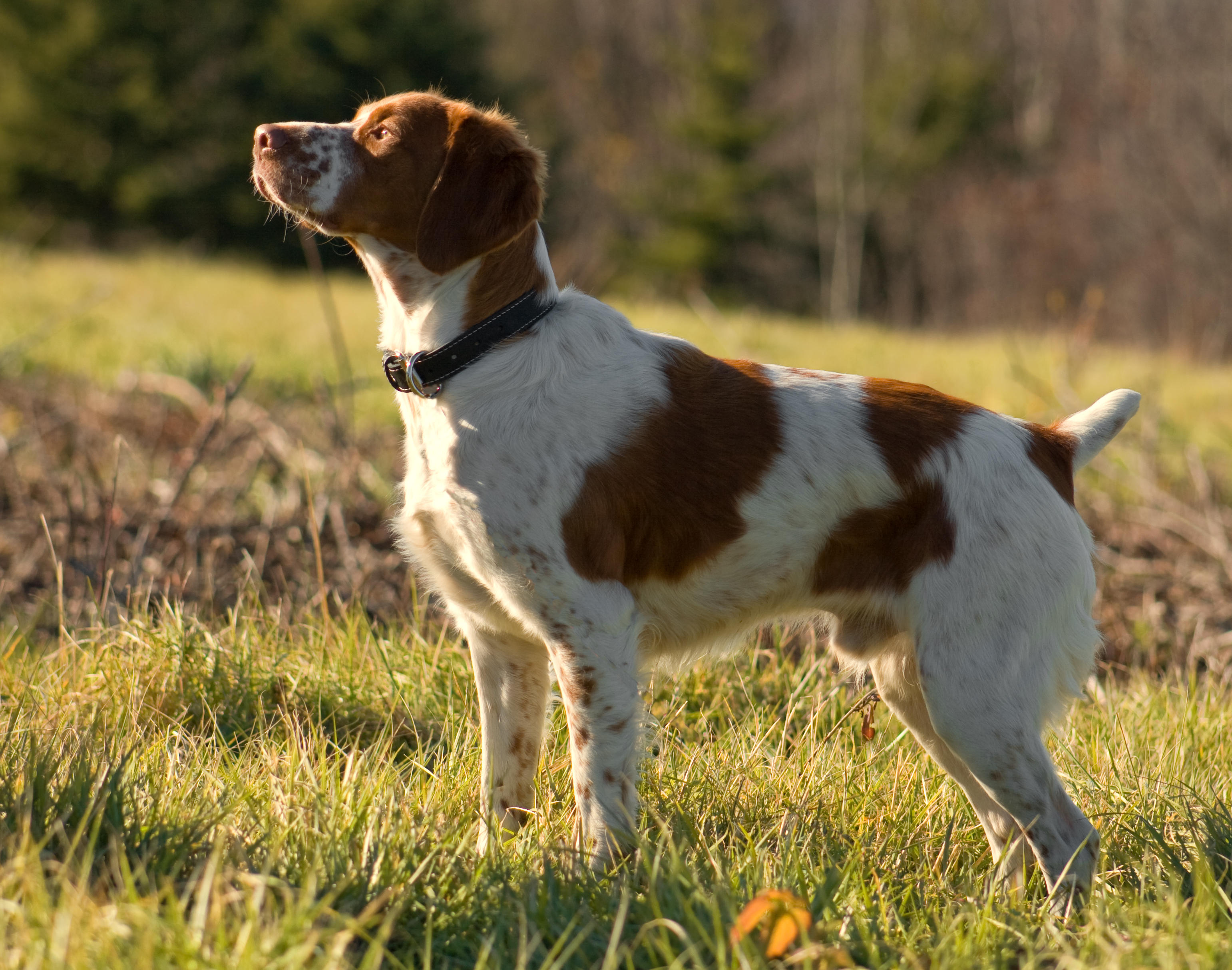 Kinwashkly That's Mr. Jagger To You, a neutered male Brittany from American dual lines, one year old when the photo was taken.